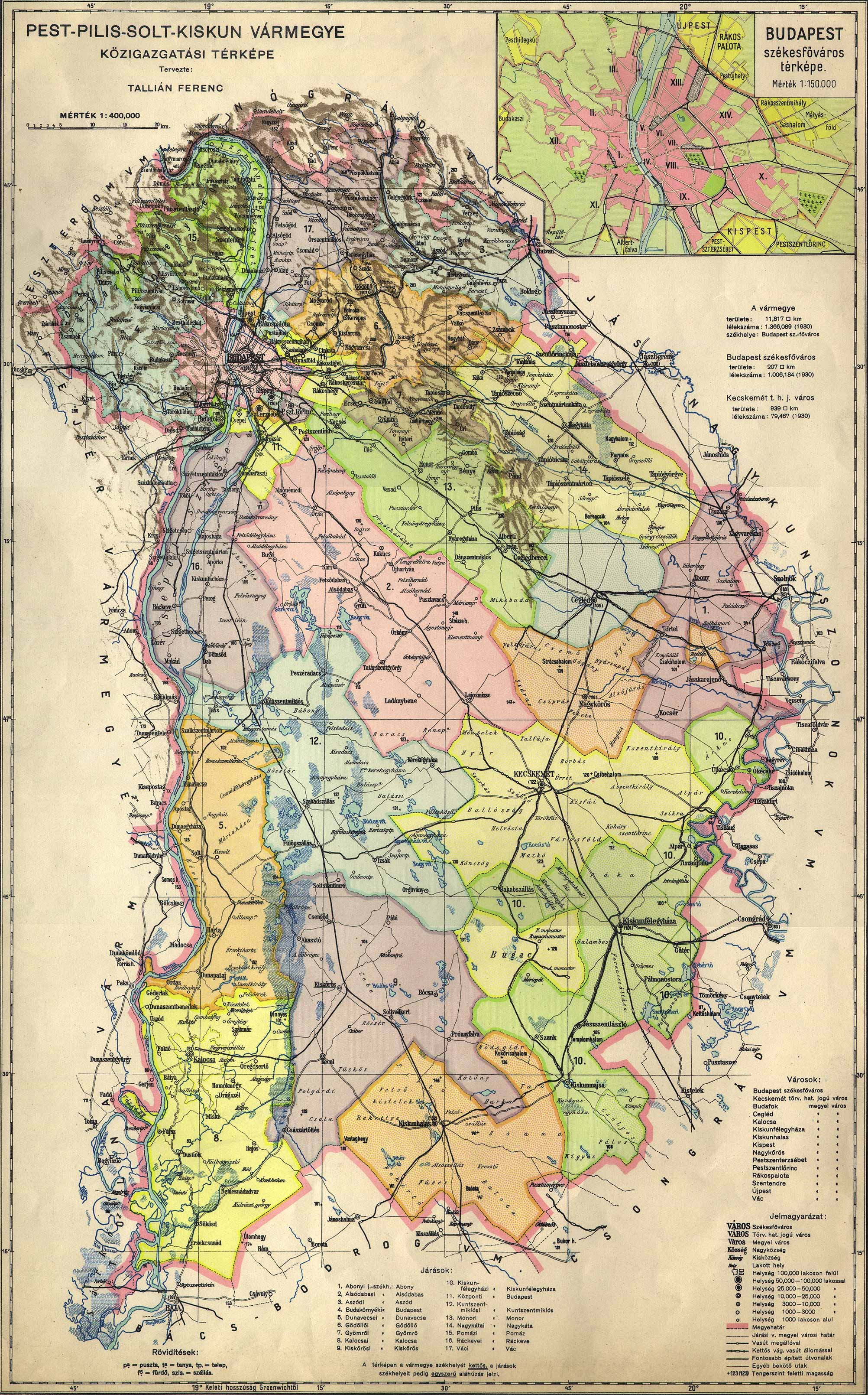 Administrative map of the county of Pest-Pilis-Solt-Kiskun in the Kingdom of Hungary